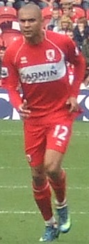 Afonso Alves.